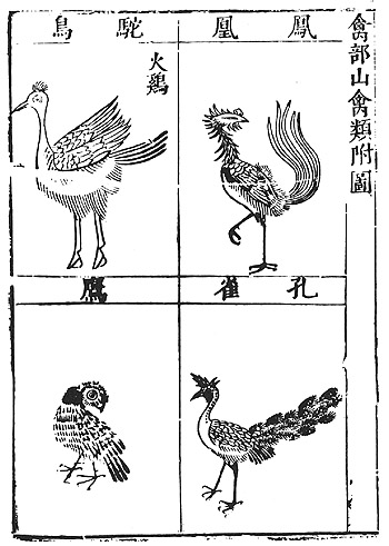 The Compendium of Materia Medica (Traditional